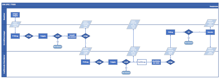 Process flows diagram of the main process of DIN SPEC 77008. I created the the flow diagram myself in VISIO. The versions published in DIN SPEC 77008 by DIN and Beuth Verlag have been created by DIN based on the diagrams created by me.I approved the usage of my diagrams by the DIN on November 5th 2018.